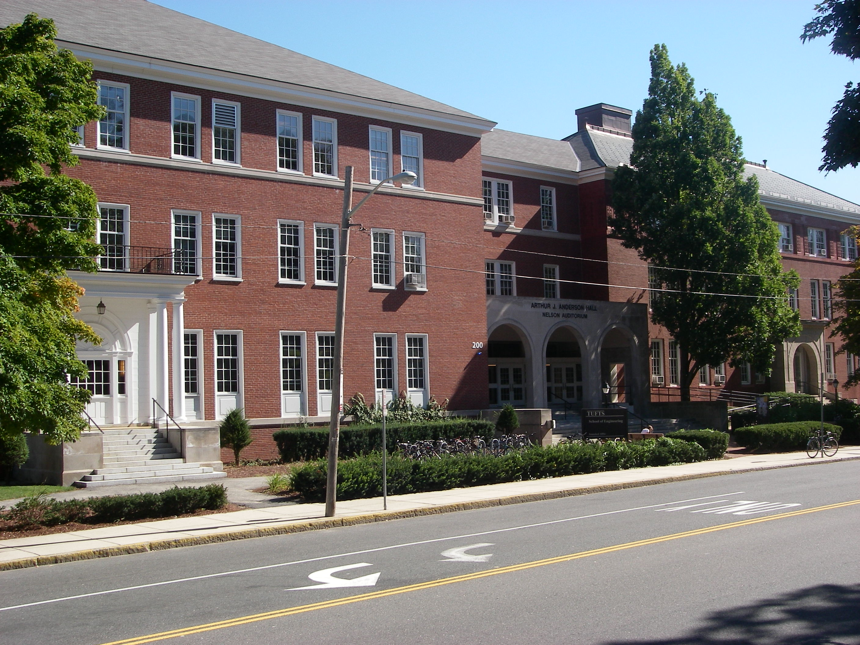 View of Anderson Hall building at Tufts University School of Engineering